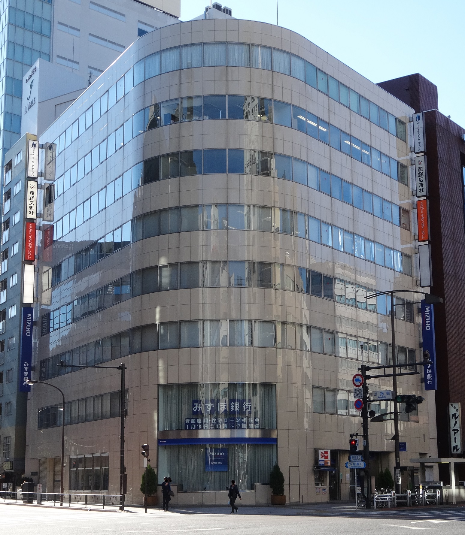 Nikko kanda building Tokyo,Japan